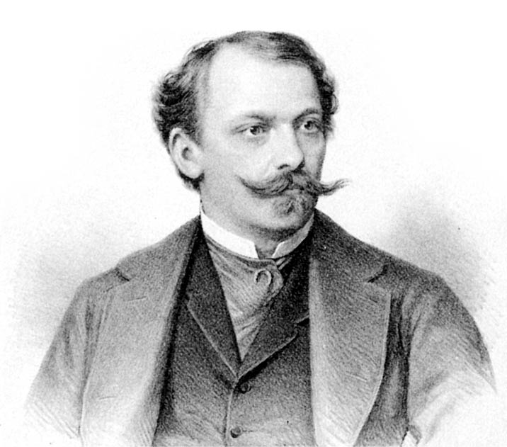 Victor Tilgner, Lithographie von Dauthage 1881